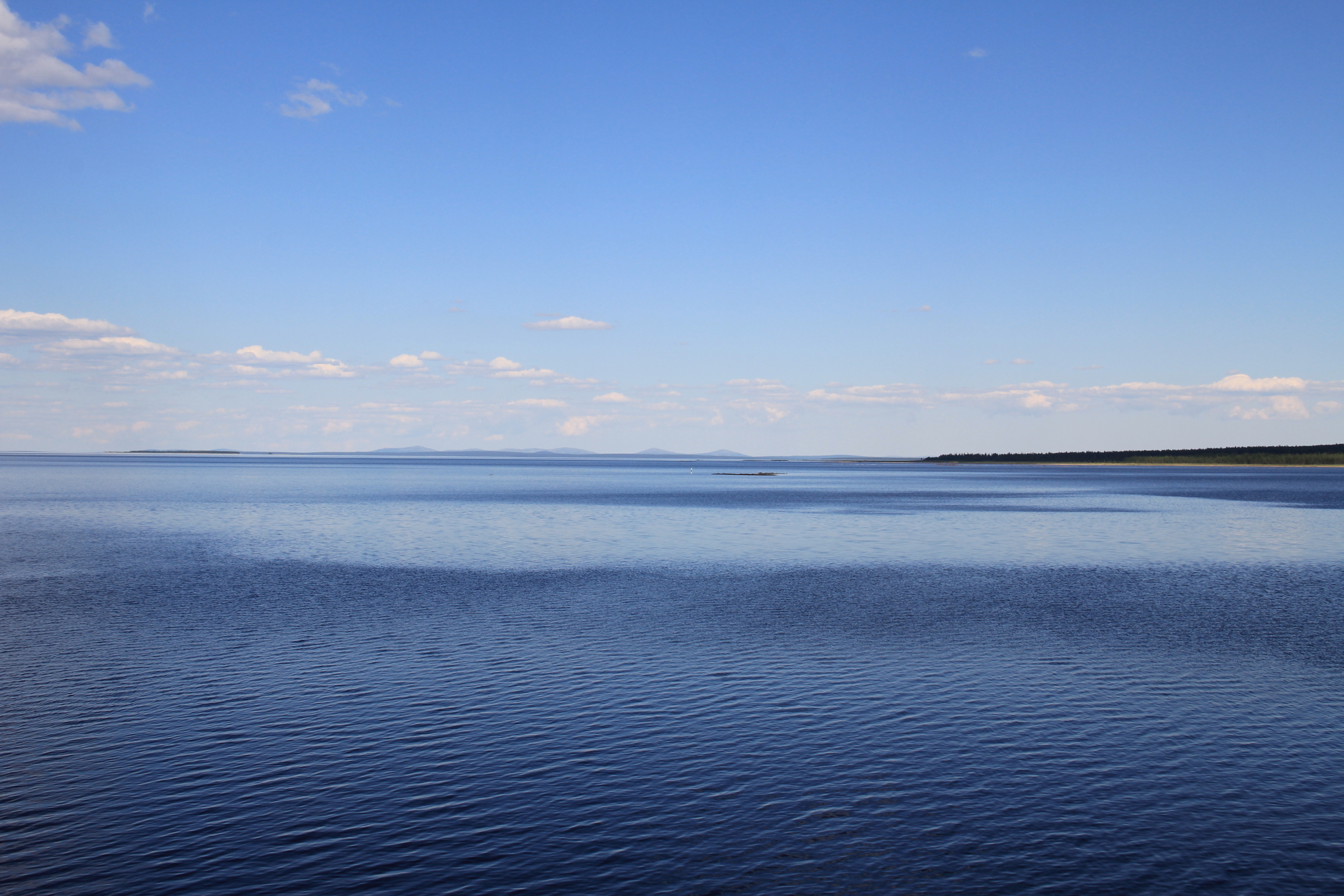 Lokka reservoir in Sodankylä, Finland. - Seen from dam road in Lokka village. Nattaset fells in the skyline.